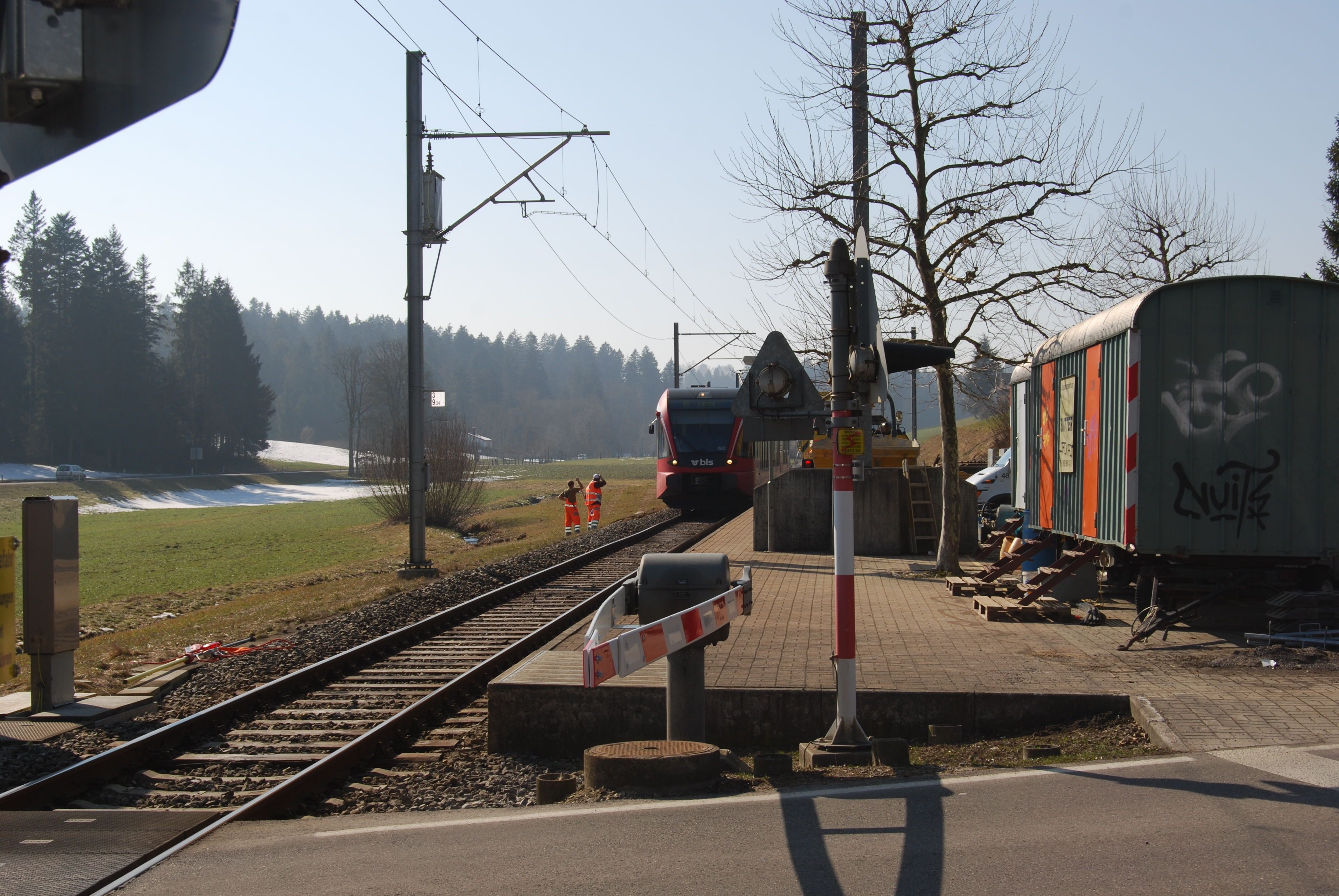 Haltestelle, municipality of Gondiswil, canton of Bern, Switzerland